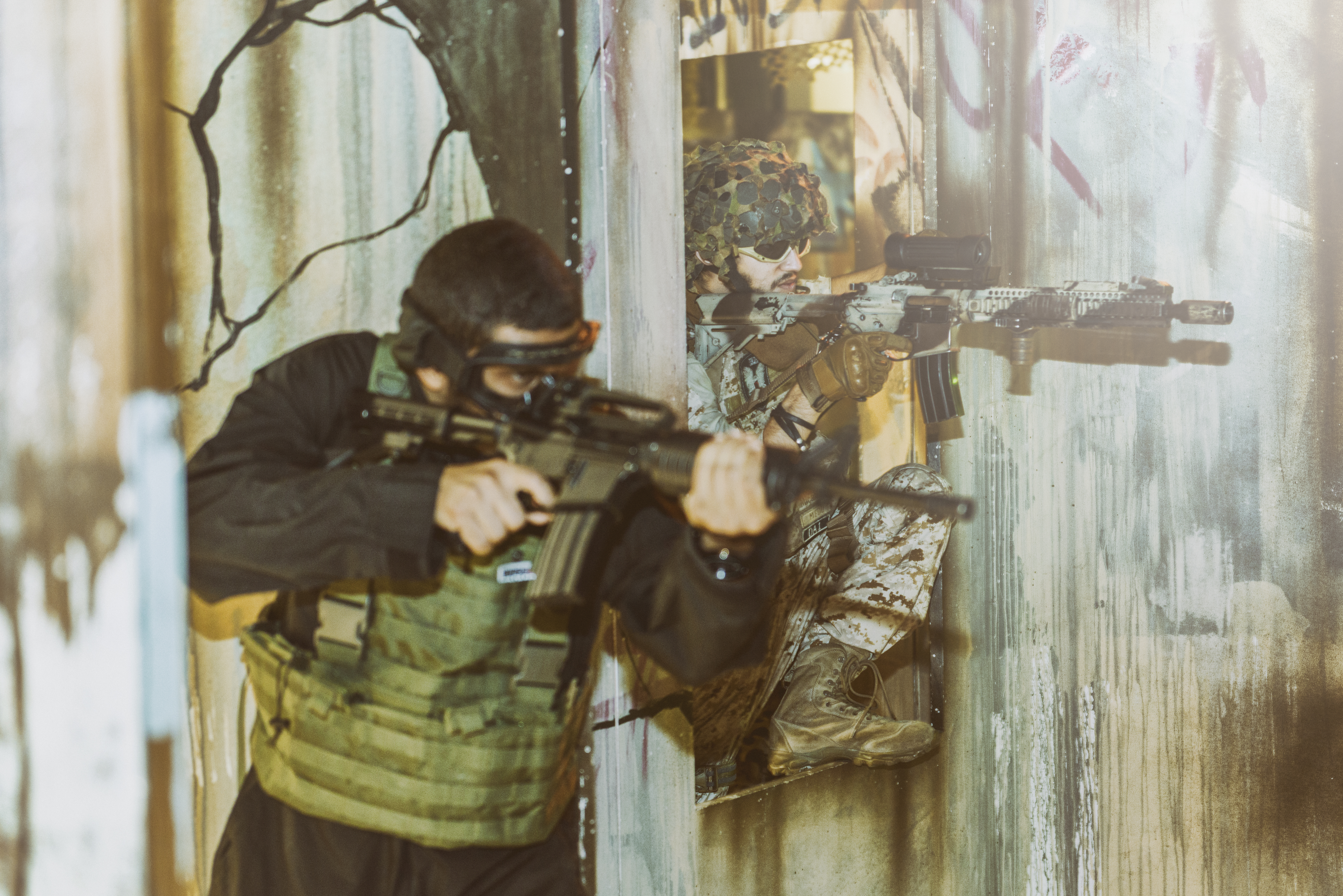 located in tasleeh shooting Abu Dhabi UAE